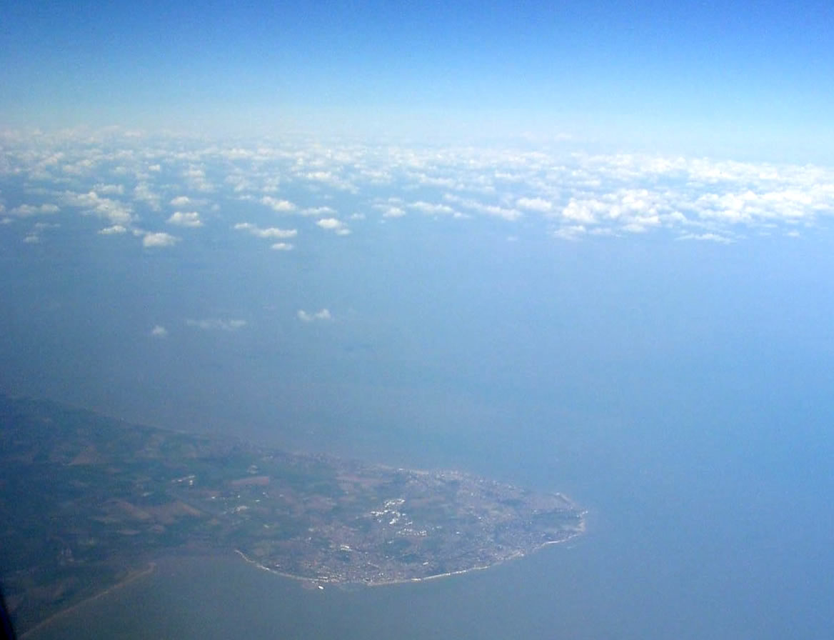 En route to Venice, I happened to look up from my book just as we were passing over Dover. It was a clear day, so I got this snap of Broadstairs and the rest of the Isle of Thanet (an island no longer). You wouldn't believe it from the photo, but it was so clear I was able to pick out individual boats in Ramsgate harbour. I'm not sure how many dozens of times I've flown out this way, but this is the first time that a window seat, the flight path, a book's break between chapters and a clear sky have combined to give me a view of my old home town from space.